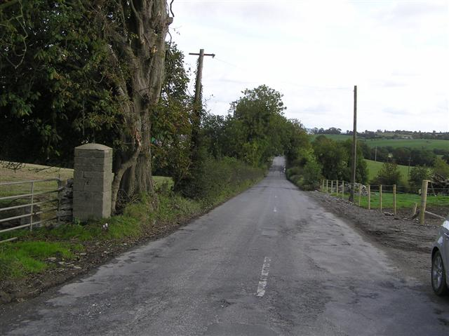 Lifford Road Pictured at Gortnesk heading SSE